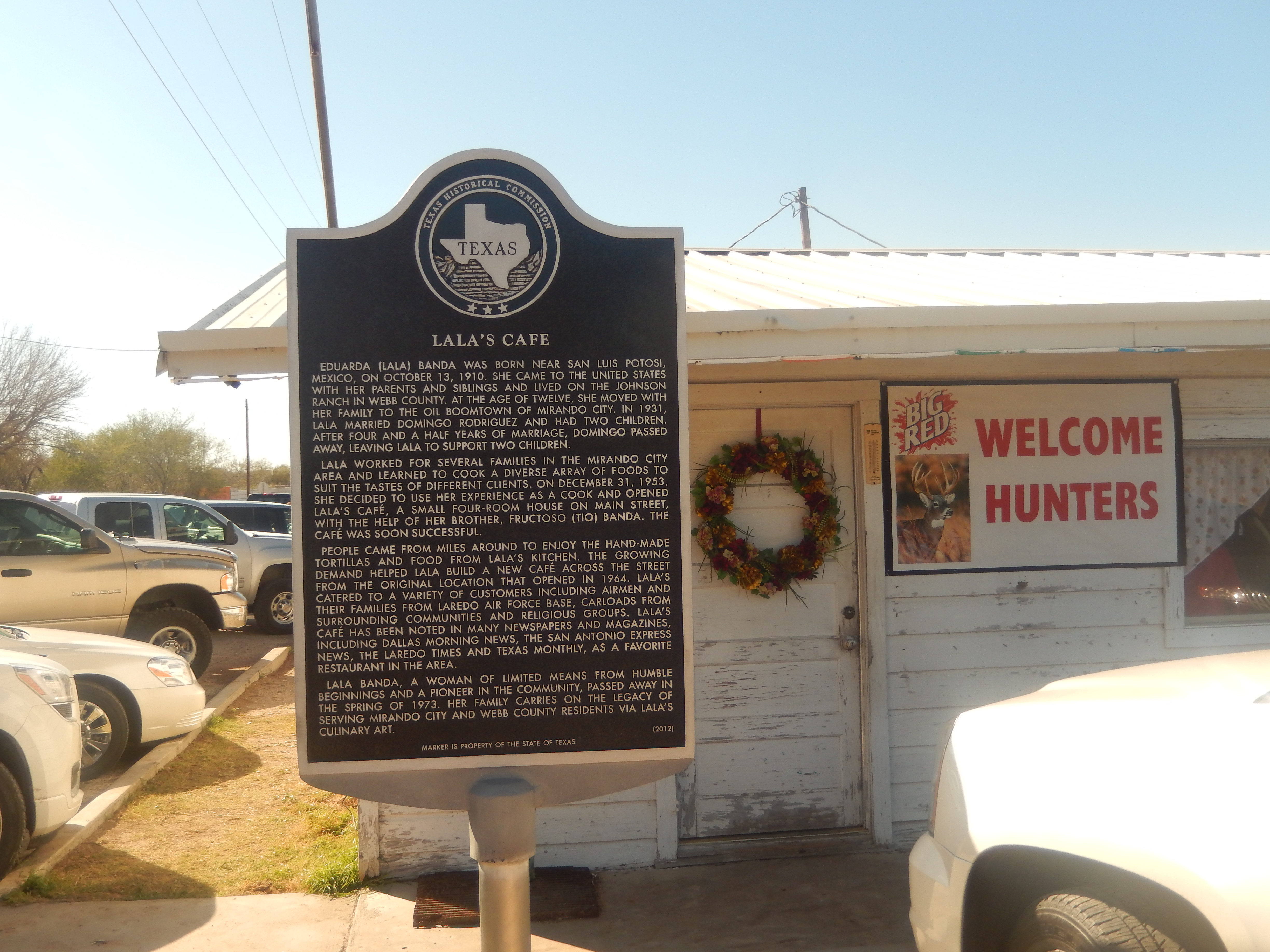 I took photo with Nikon camera of Lala's Café and historical marker in Mirando City, TX.